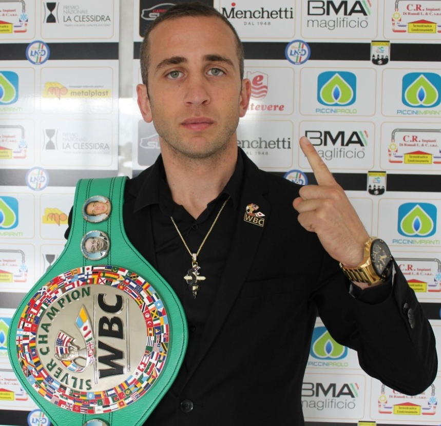 Riguccini in an interview in his hometown Sansepolcro